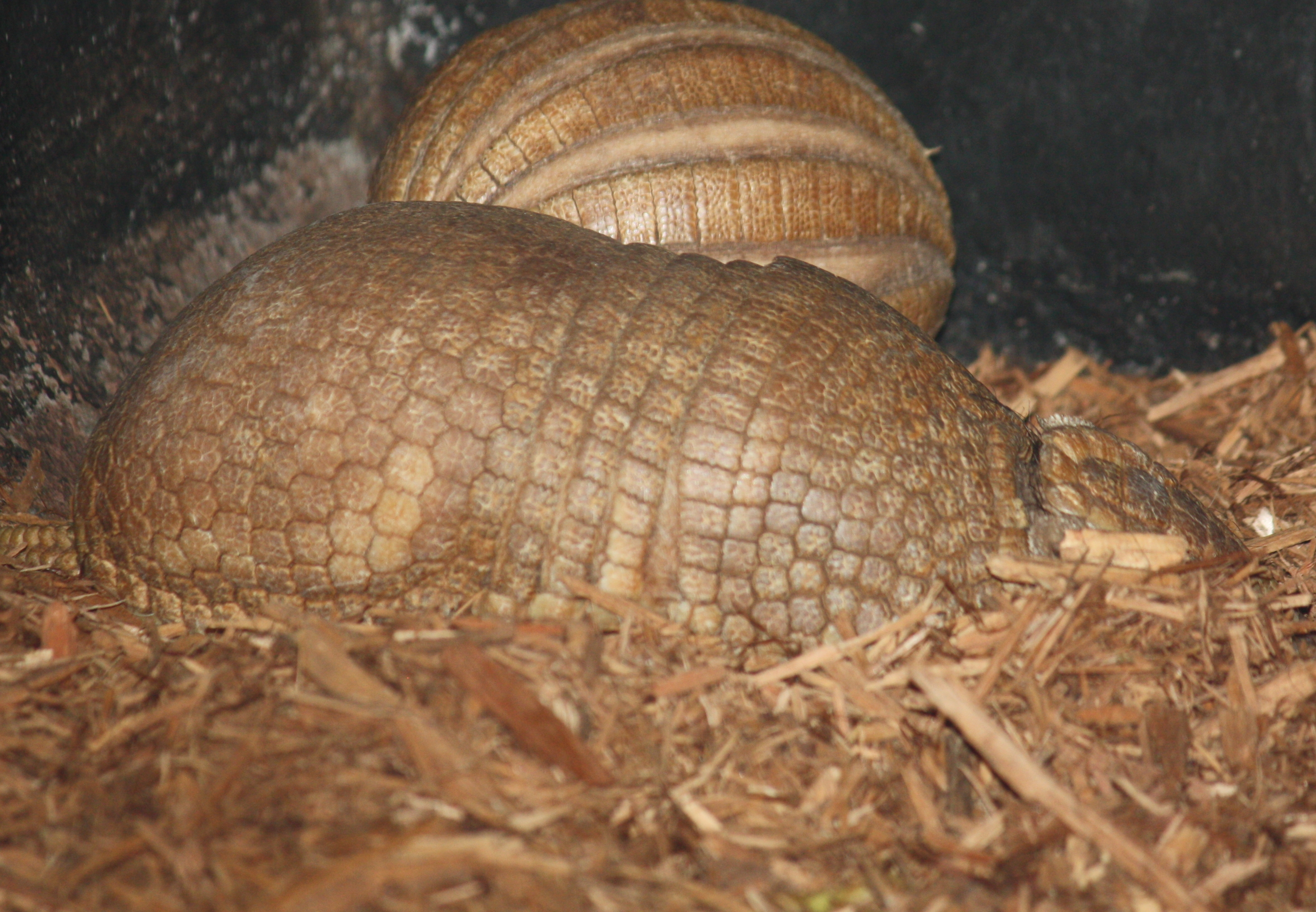 Three Banded Armadillo Tolypeutes matacus at Cincinnati Zoo